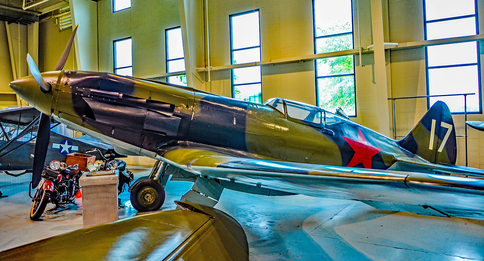 2008 Reconstructed from 6 recovered wrecked aircraft, and is the only Mig-3 flying anywhere in the World.... Military Aviation Museum Virginia Beach Airport (42VA) Photo: TDelCoro July 21, 2018